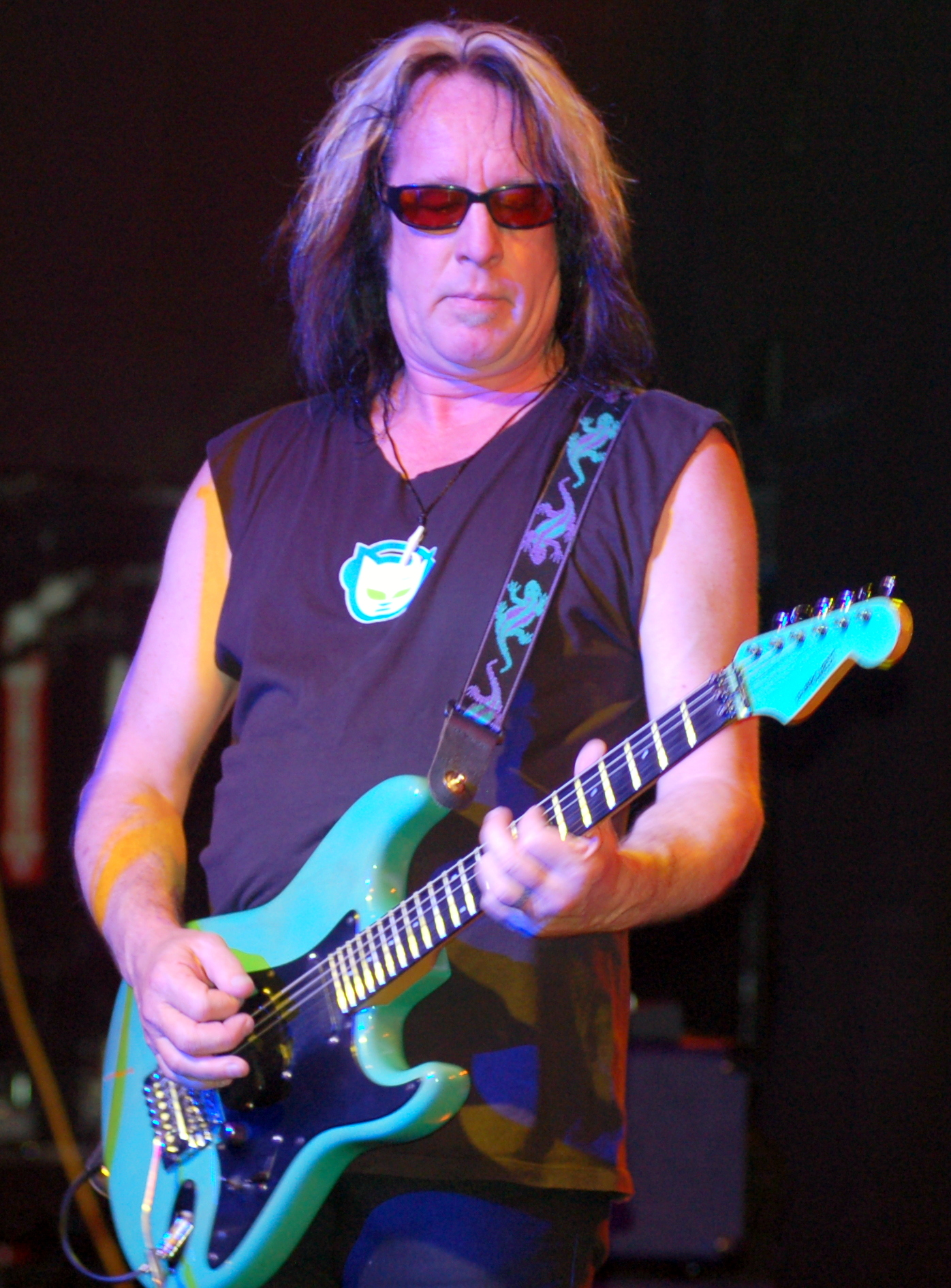 March 25th 2009 - Fort Lauderdale, FL